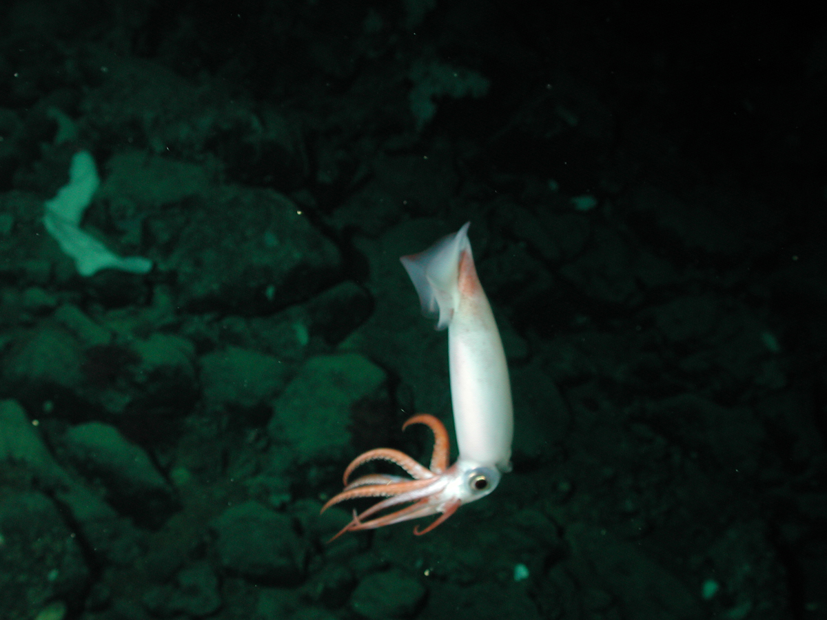 Clawed armhook squid (Gonatus onyx) on the Davidson Seamount at 1328 meters depth.